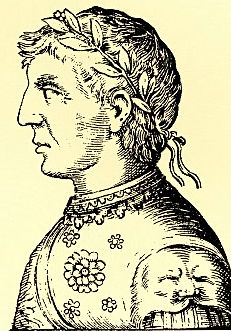 Vicarius of Pope in Rome and tribune (1313-1354)